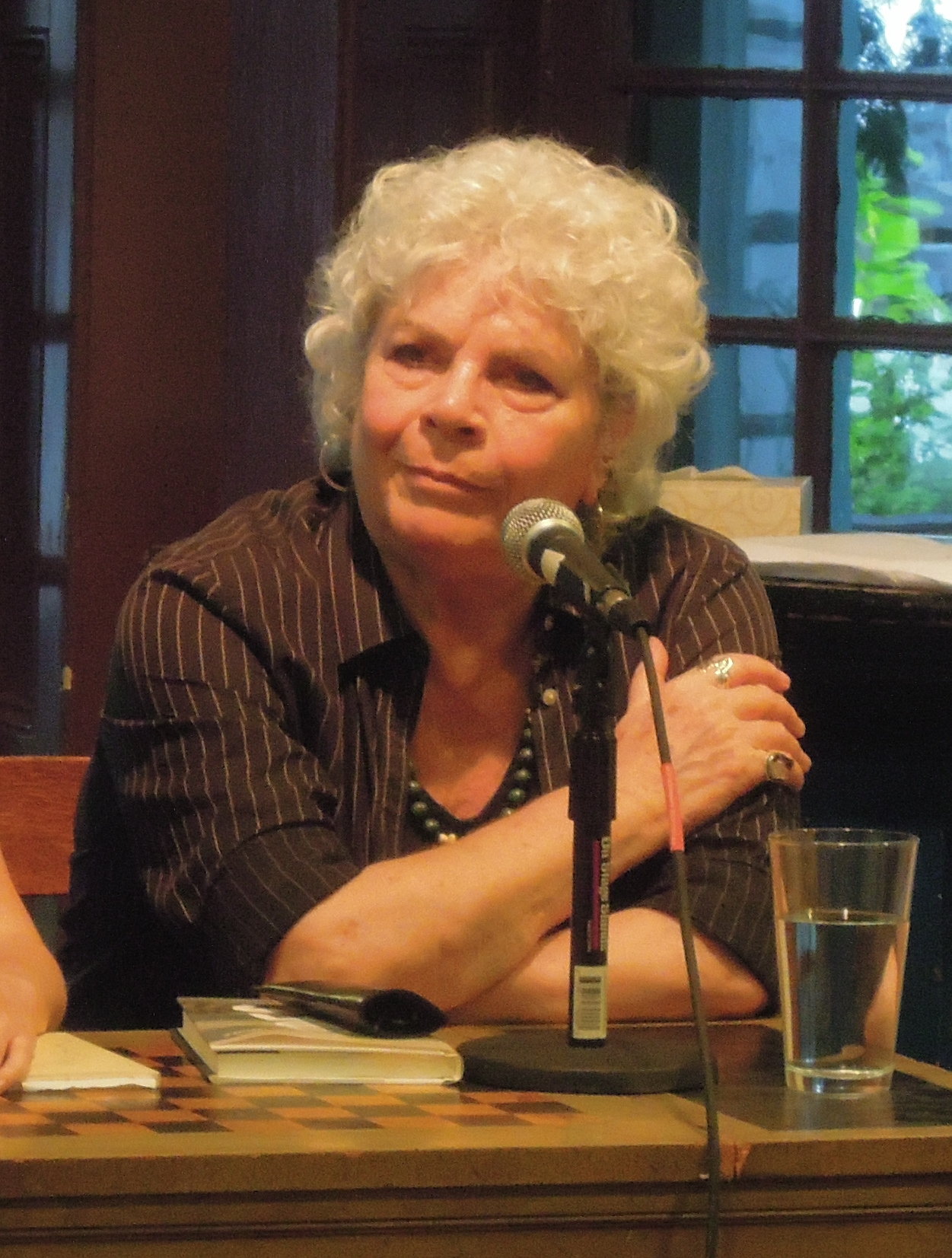 Edith Grossman (left) & Rosalie Knecht (right) in April 2012.